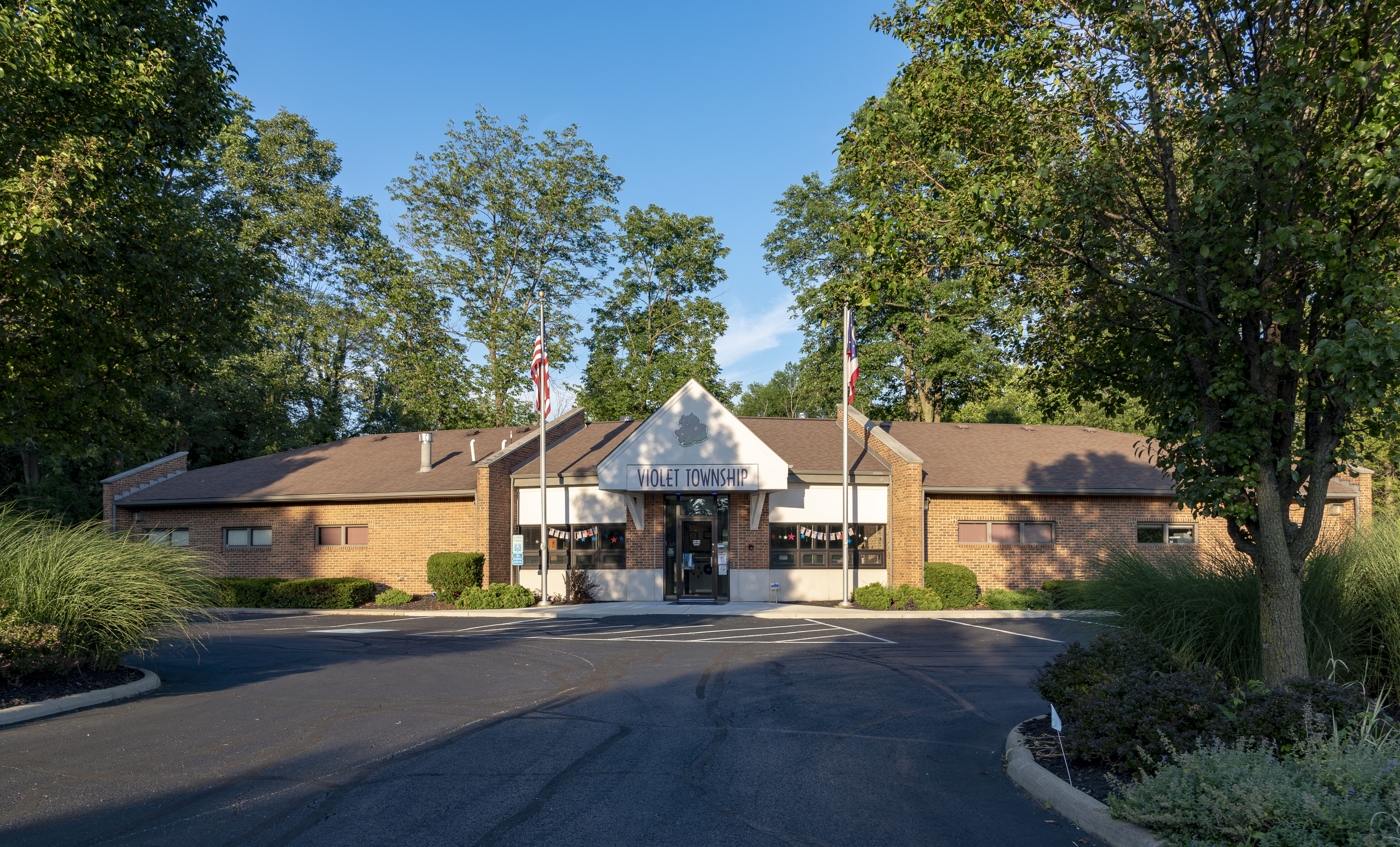 Violet Township Town Hall and Administrative Offices in Fairfield County, Ohio. Photo taken looking east just before sunset July.